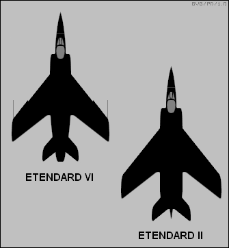 Dassault Étendard VI vs Dassault Étendard II